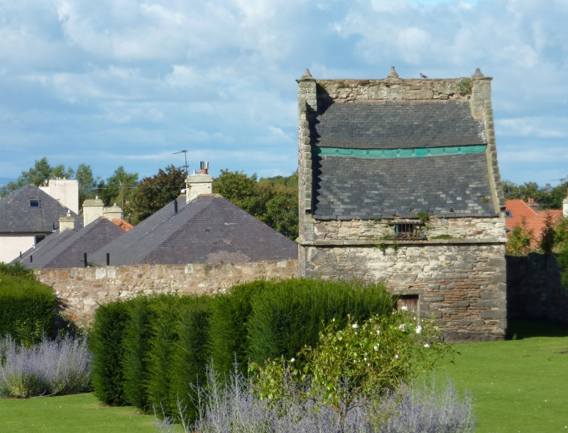 Preston Tower, East Lothian, Scotland. Garden and doocot.